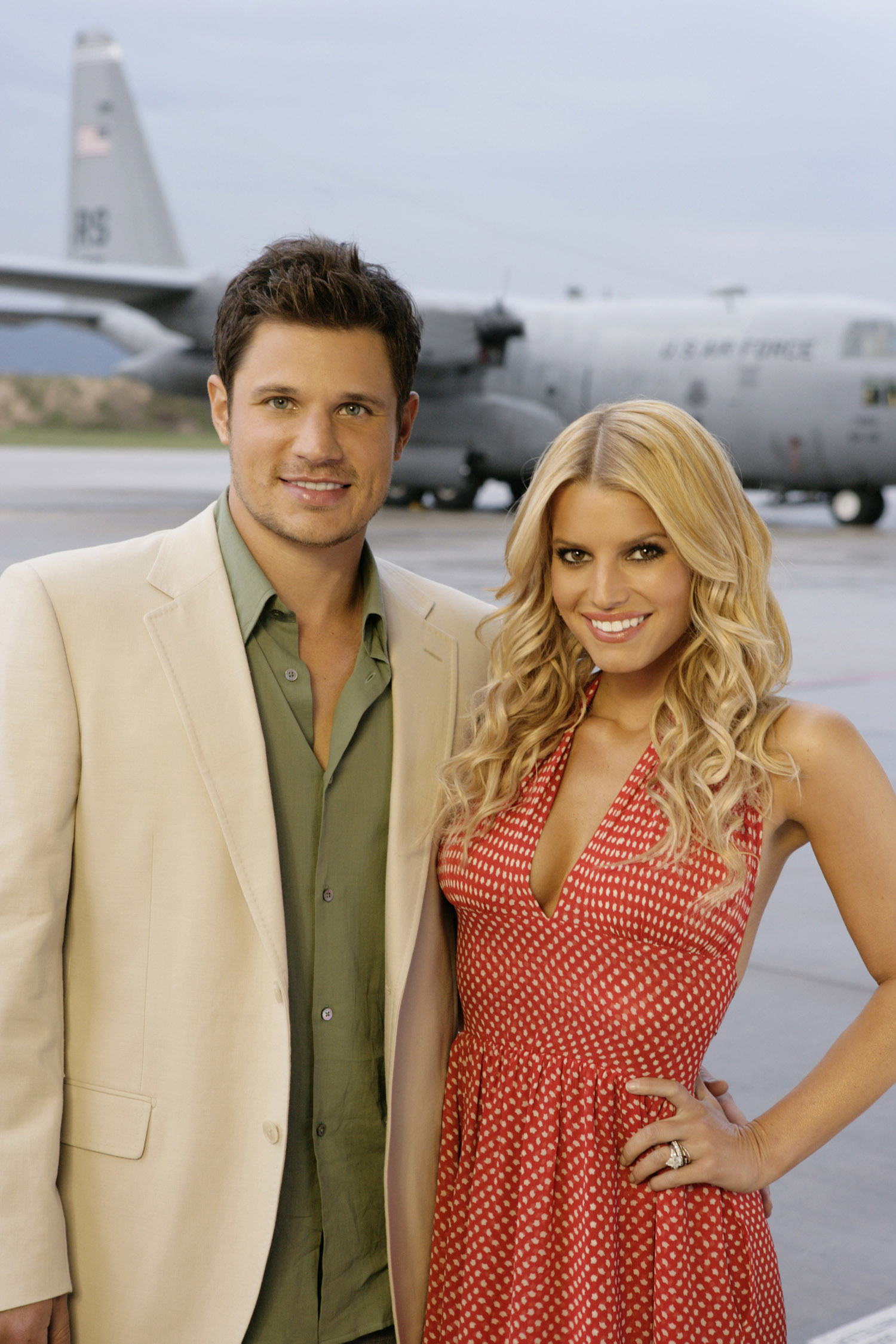 Nick Lachey and Jessica Simpson at the Headquarters of US Marine Corps, posing for the camera. (The couple later hit the road with their "Nick & Jessica's Tour of Duty".)